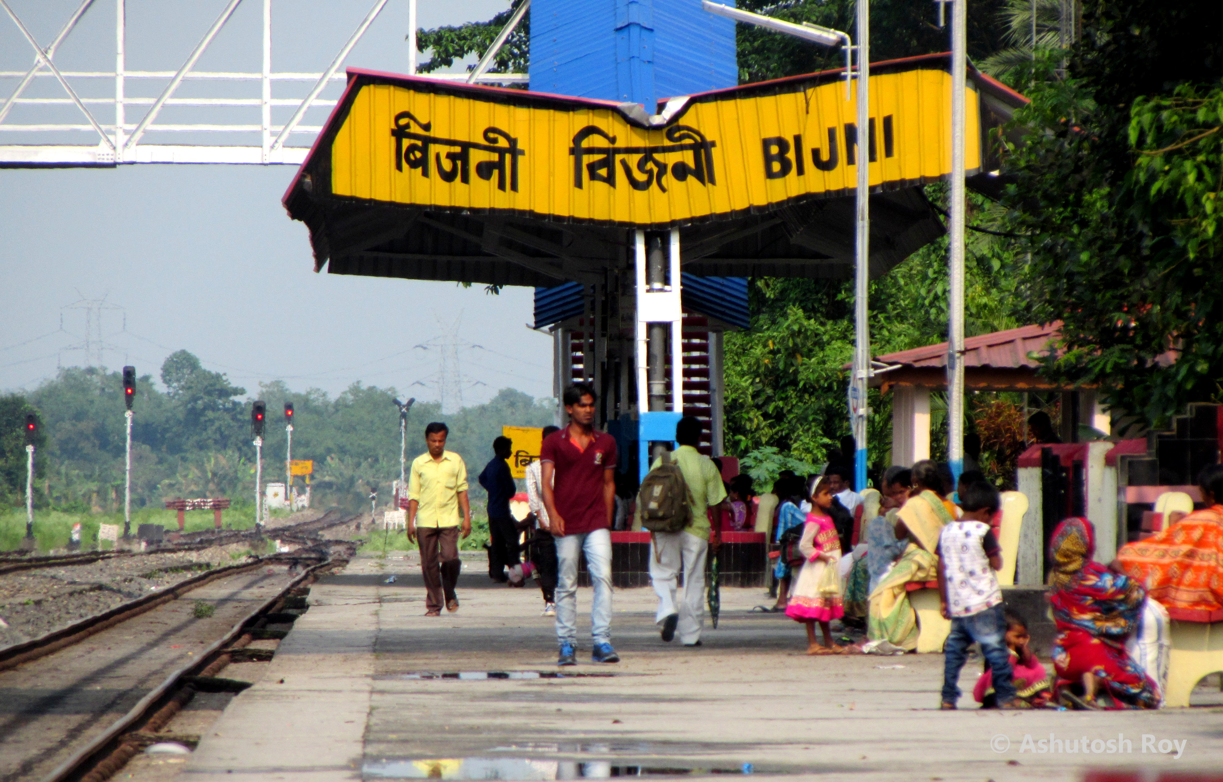 New look of Bijni Railway Station,Assam